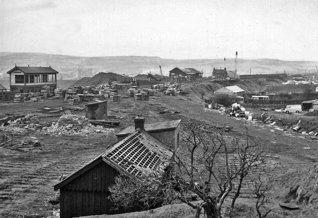 Site of Brynmawr Station. View SW, towards Merthyr (to right) and Blaina, Aberbeeg and Newport (to left); ex-London & North Western Abergavenny - Merthyr (Heads of the Valleys) line. Track-bed bottom right is coming from Abergavenny, the derelict signalbox was Brynmawr & Western Valleys Junction, at junction of line from Blaenavon (High Level) (track-bed centre-left). Brynmawr passenger station had been roughly where the sheds are (with house behind); Brynmawr Goods was on a separate line over to the right. [These details are open to correction by someone who knows better!]. Passenger services from Newport via Pontypool and Talywain ceased on 5/5/41 (goods until 6/54) and the Abergavenny - Merthyr line was closed on 6/1/58, but the station remained as a terminus for the trains from Newport until 30/4/62, for goods until 11/63.